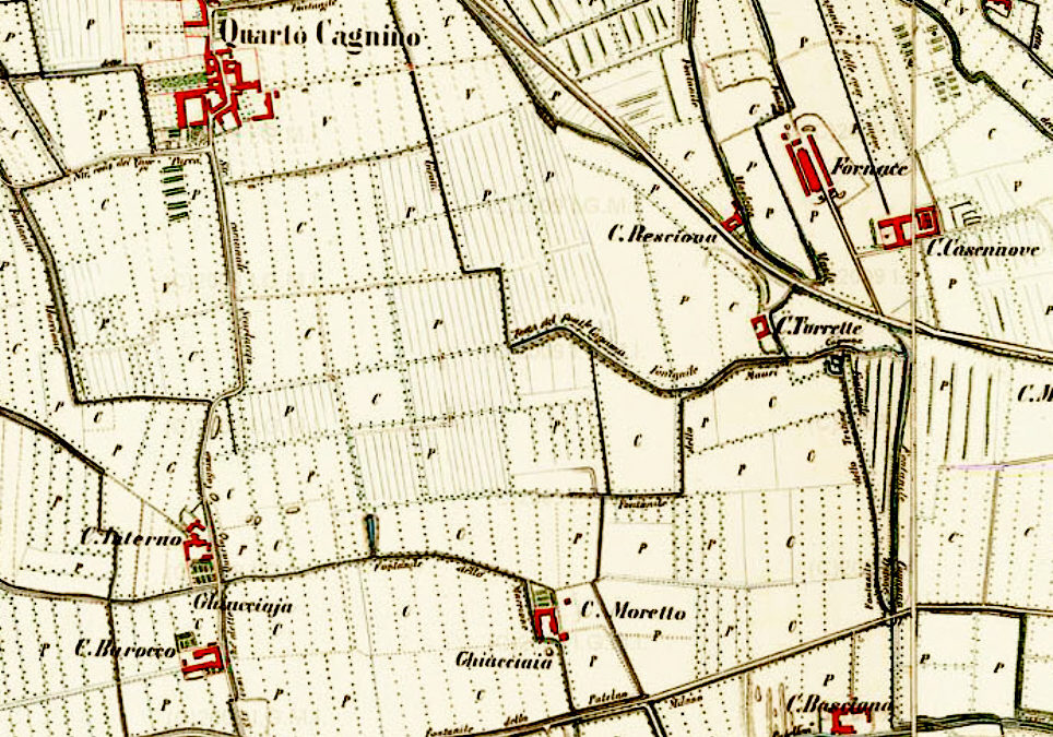 Portion of the maneuver map of the surroundings of Milan in 1878. This map shows the area on which the military citadel would have arisen with the presence of meadows, fountains, farmhouses and roads.